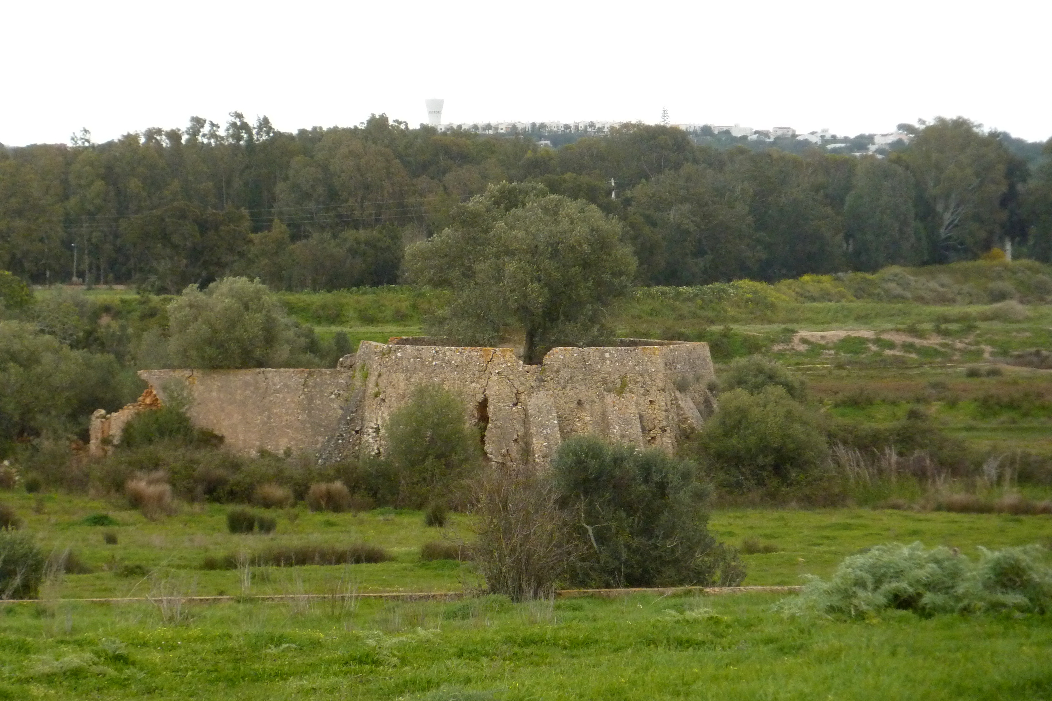 Portugal - Algarve - Old tower near Roman Villa (Abicada)